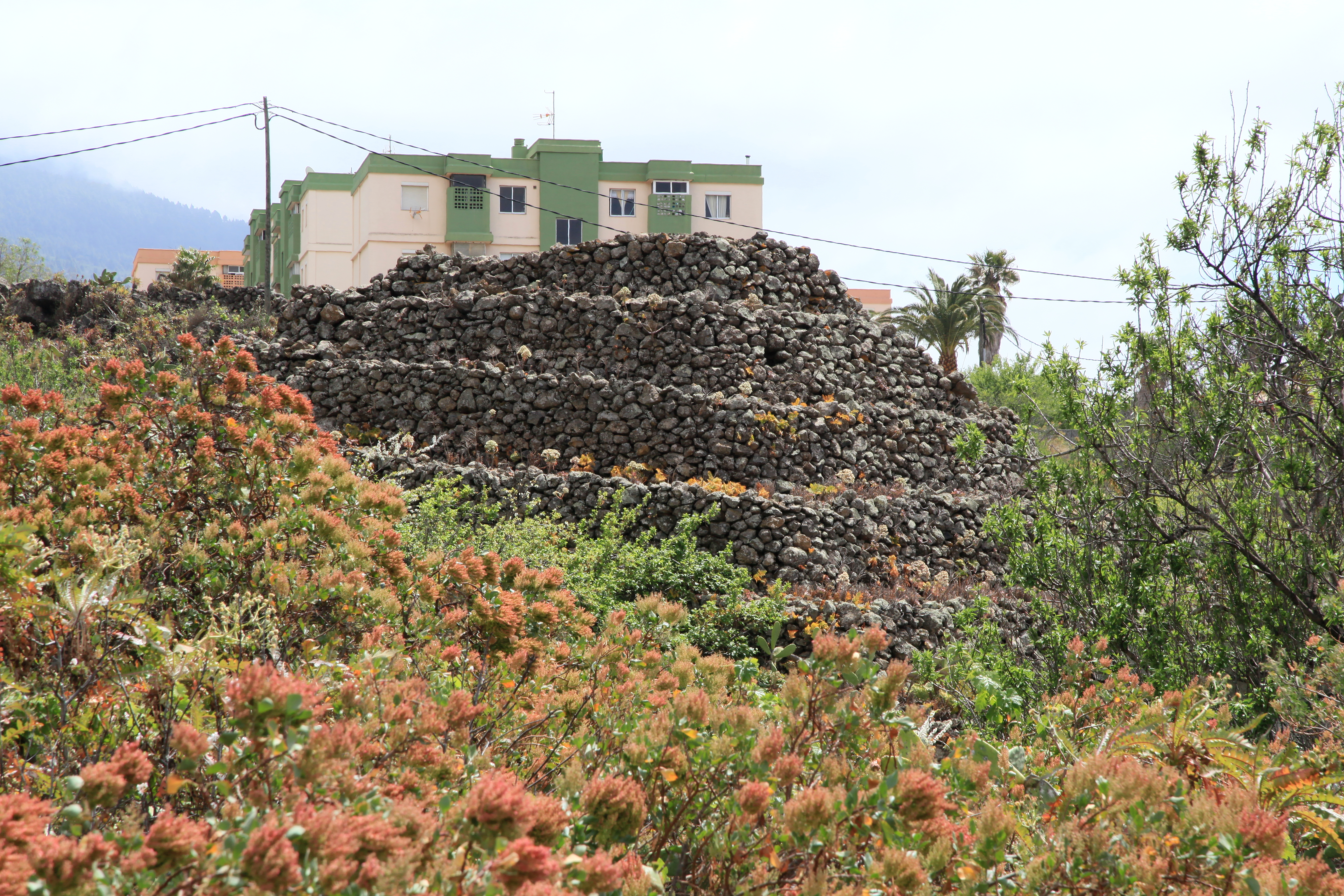 El Paso pyramid, Calle Coromoto in El Paso (La Palma), La Palma, Canary Island, Spain